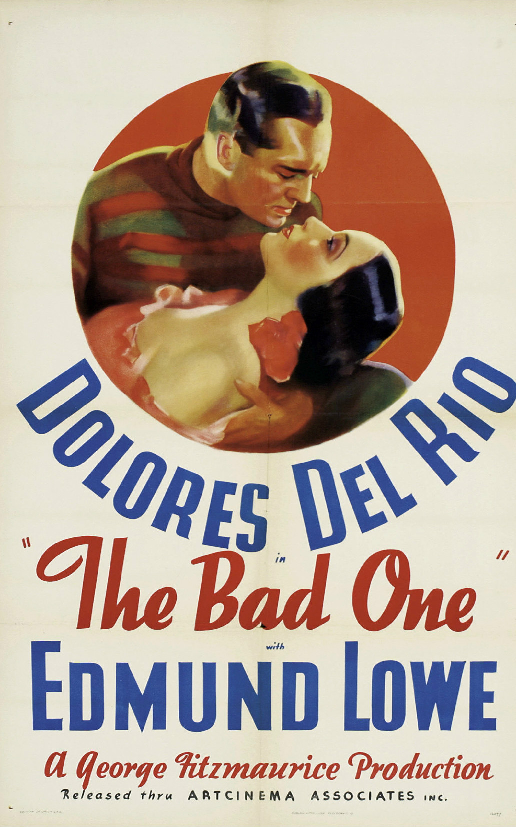 Poster for the American pre-Code musical film The Bad One (1930). There are no copyright marks. At bottom left is Country of origin USA. At bottom right is Morgan Litho Corp. Cleveland, O.-they printed the poster.